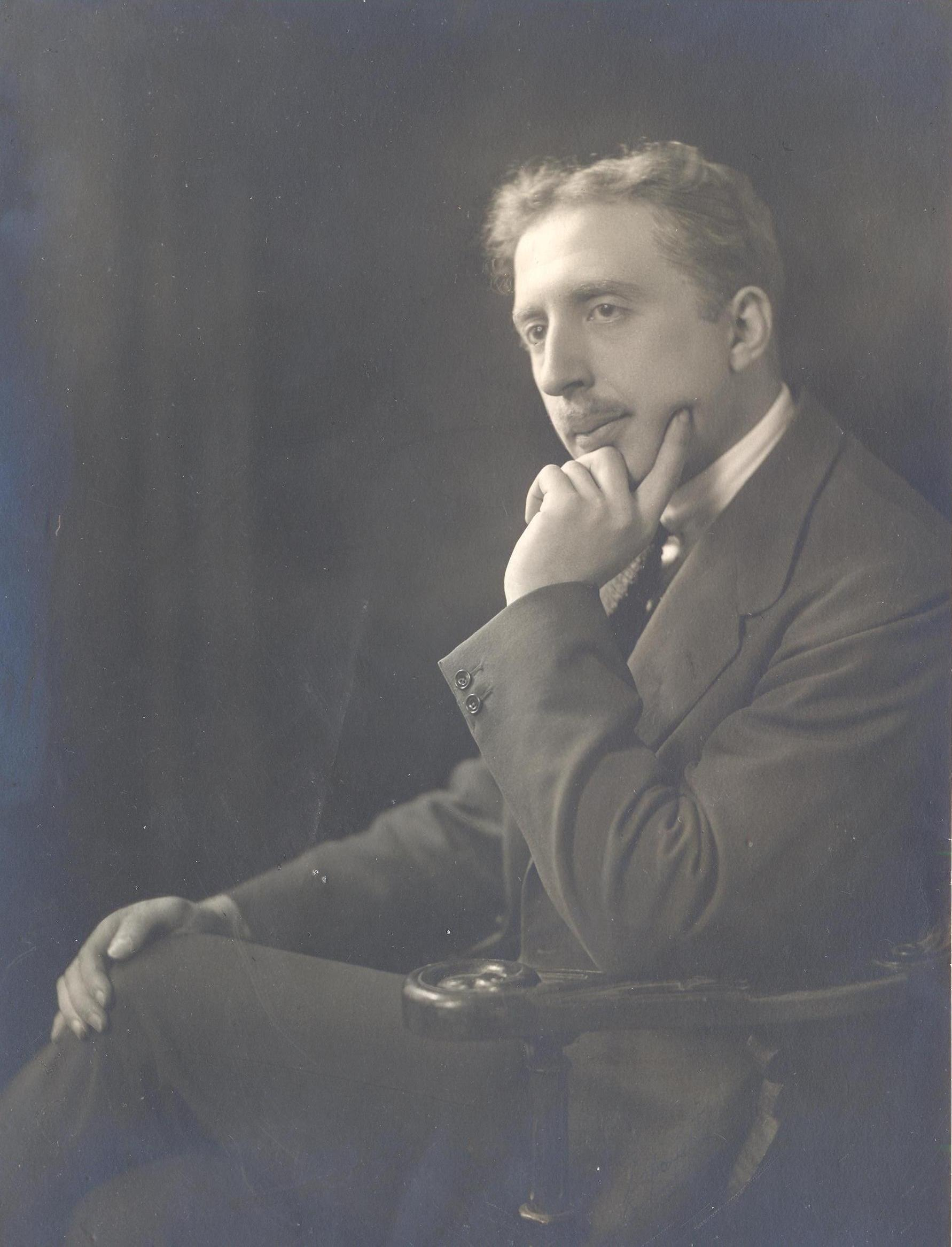 Georgy Madzharov, near 1920.